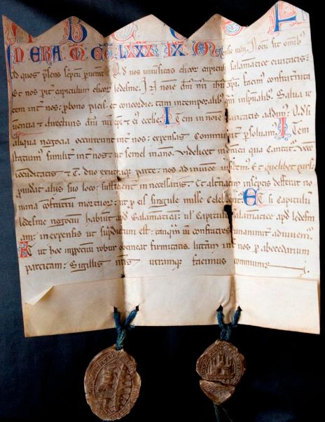 Carta de la Clerecía de Ledesma . 1252